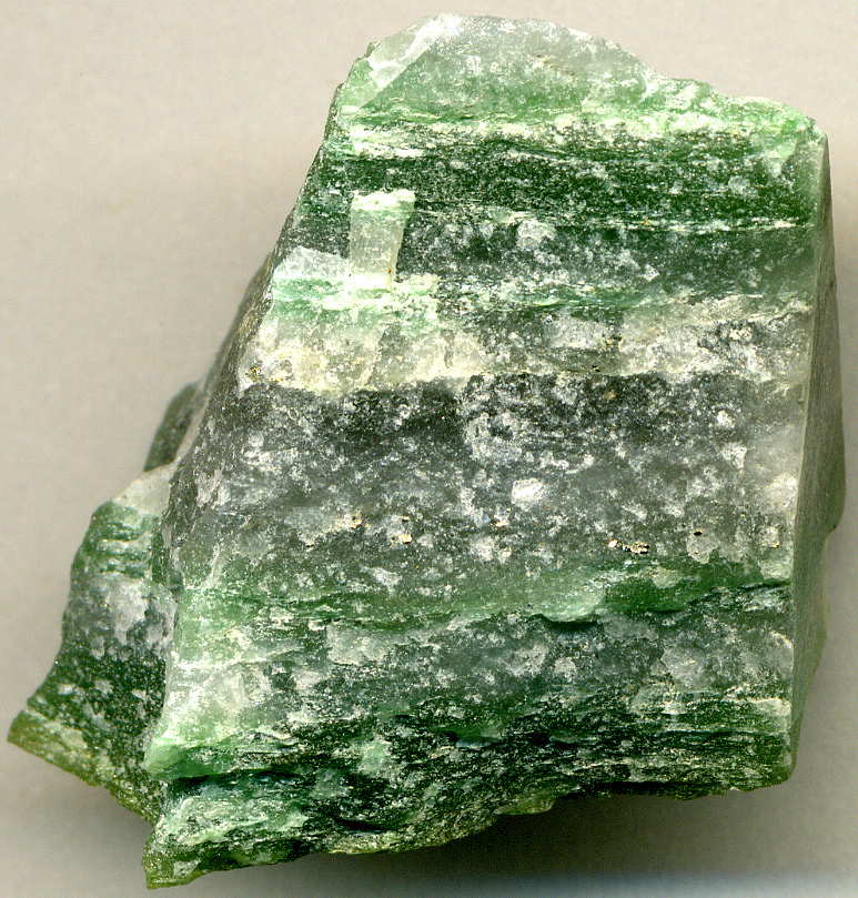 Greenlandite (fuchsite-quartz gneiss) (2.7 cm across at its widest) from the Precambrian of southwestern Greenland. Green = fuchsite; gray = quartz; a few small, scattered pyrite crystals (brassy gold-colored) are also visible. Attractive greenish-colored gneisses in southwestern Greenland that contain the minerals fuchsite (green) and quartz (gray) have been informally called greenlandite. Fuchsite is a chromian muscovite mica (K(Al,Cr)2AlSi3O10(OH,F)2 - potassium chromium hydroxy-fluoro-aluminosilicate); it is typically encountered in schistose rocks. Greenland greenlandite is part of a 3.8 billion year old, highly metamorphosed succession of rocks. These represent the oldest known supracrustal rocks on Earth (the oldest crustal Earth rocks include 4.03 billion year old Acasta Gneiss, 4.28 b.y. rocks from the eastern Hudson Bay area, and 4.45-4.55 b.y. rocks in the subsurface of Baffin Island, Canada). Locality: undisclosed locality in the Godthåbsfjord area or Nuuk area, southwestern Greenland. Age: Eoarchean boundary, 3.8 billion years.